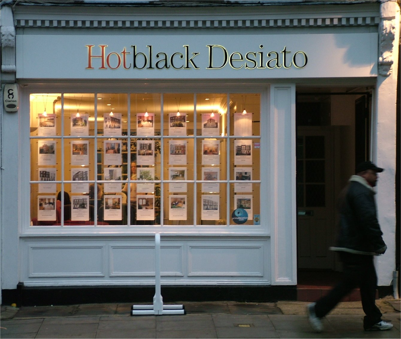 Hotblack Desiato estate agents - February 16 2005. this real estate agency's name was used as a character name in the Hitchhiker's Guide to the Galaxy novel series. (This branch is on the way to London Zoo by tube ... 67 Parkway, Camden Town, London NW1.)